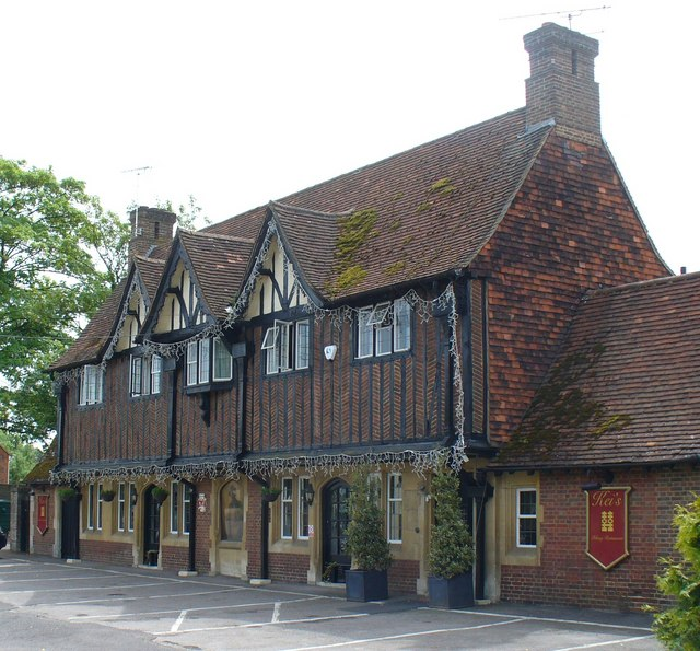 Life Goes On The former Jolly Farmer pub now has a new life as Kei's Beijing Restaurant.